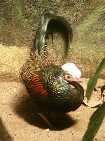 Green Junglefowl